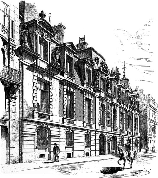 64 RUE DE LISBONNE Façade - 1878 - Home of Ernest and Alice Horschede